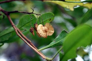 my own photo